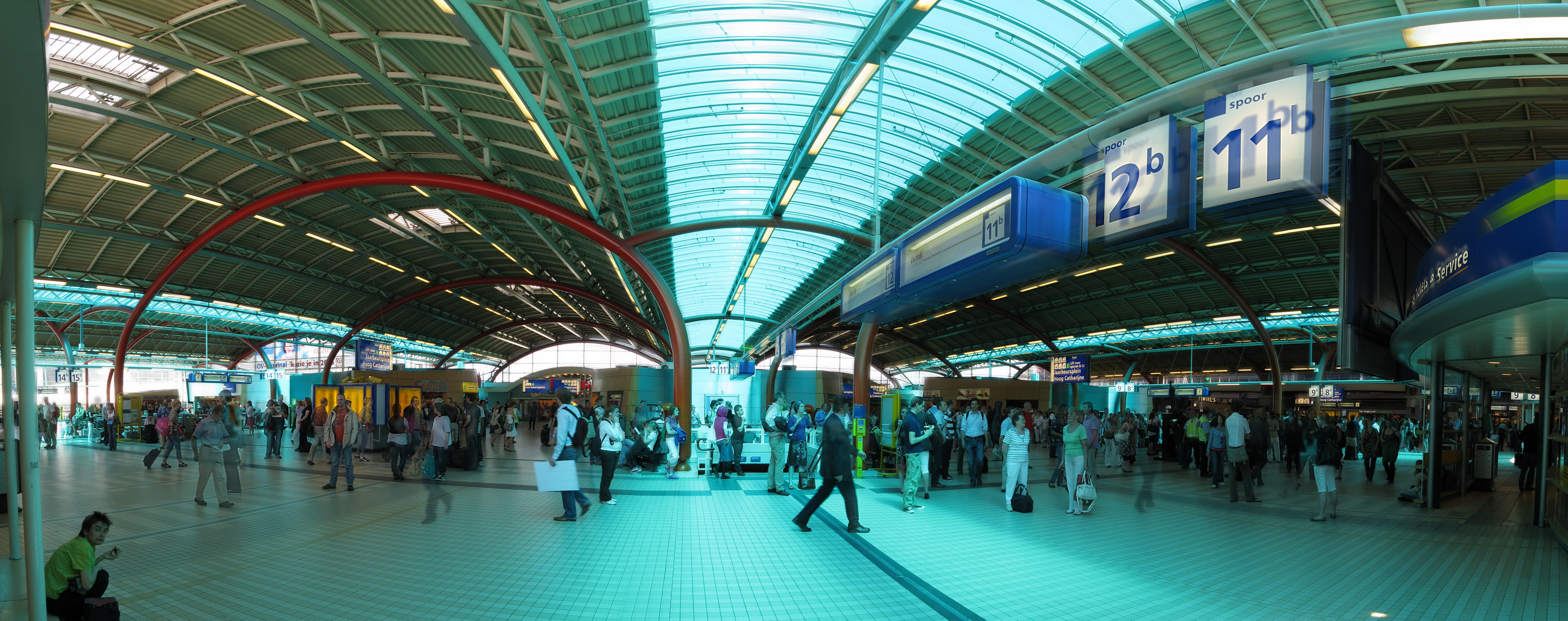 Utrecht Central Station Hall above the trains, Utrecht, the Netherlands